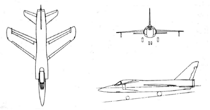 Official U.S. Navy Characteristics Summary (CS) for the Grumman F11F-1F Super Tiger fighter prototype. The main difference between the F11F-1 and the F11F-1F was the General Electric J79 engine. Only two F11F-1F were produced.